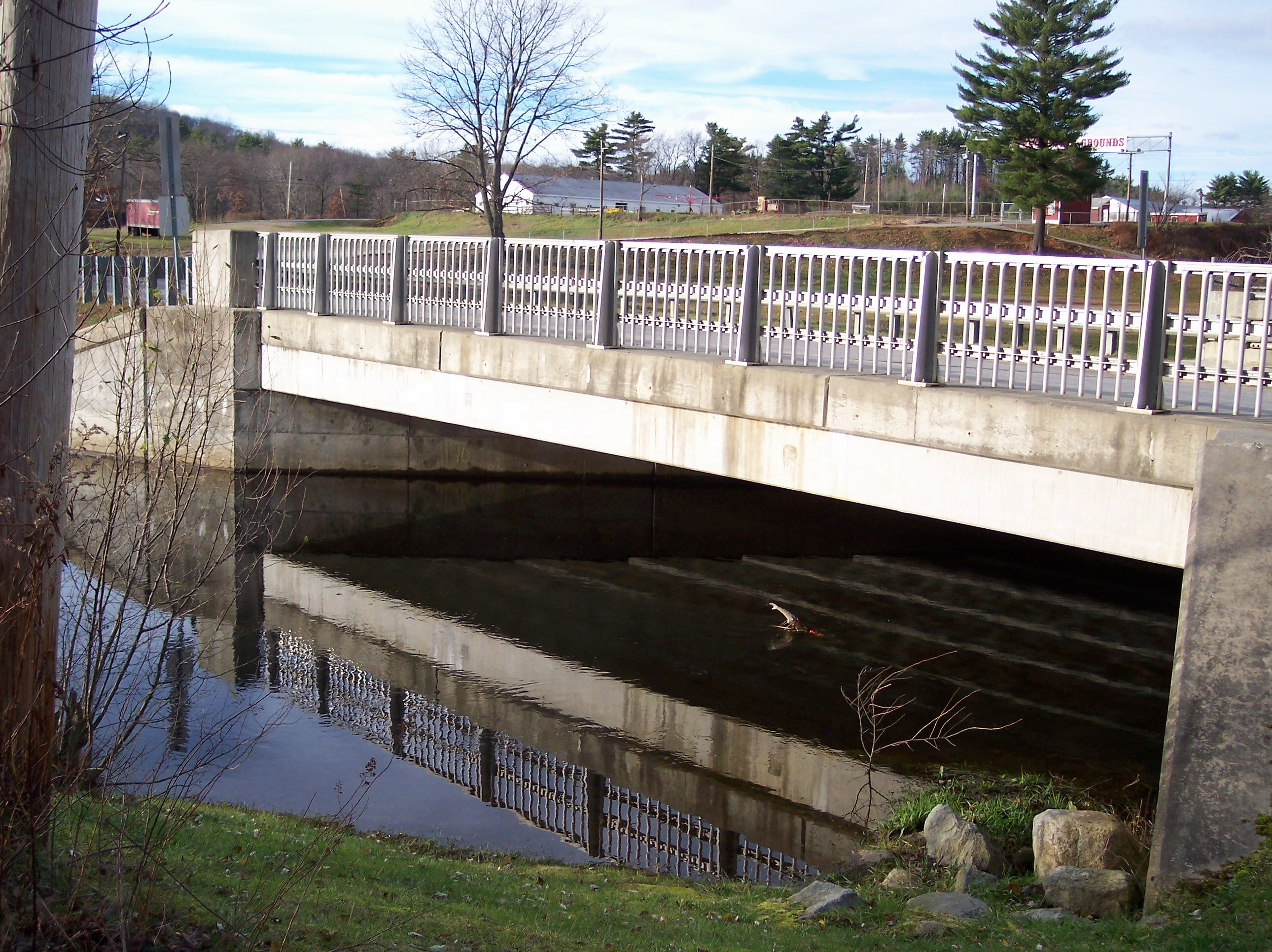 Seven Mile River in Spencer, MA. Photo by Author, Richard B. Johnson